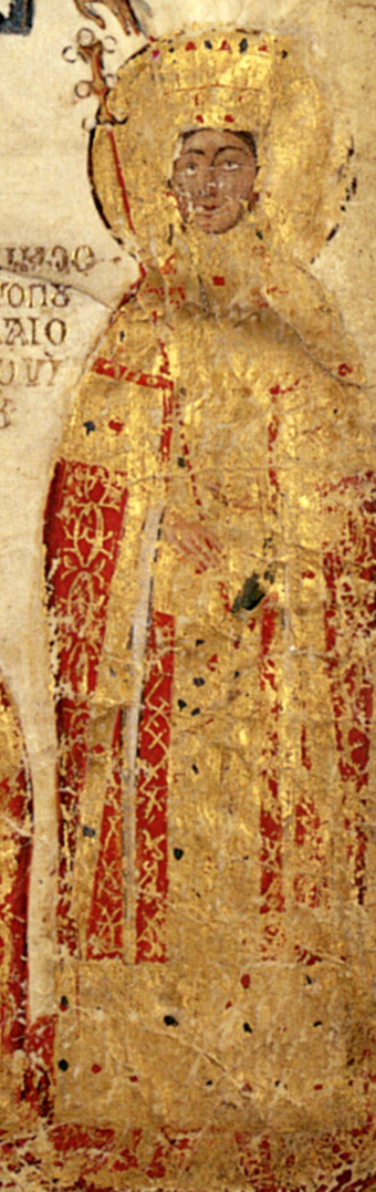 Empress Helena Dragaš